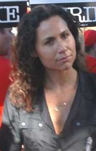 English actress Minnie Driver during the 2007 WGA protests. Cropped.